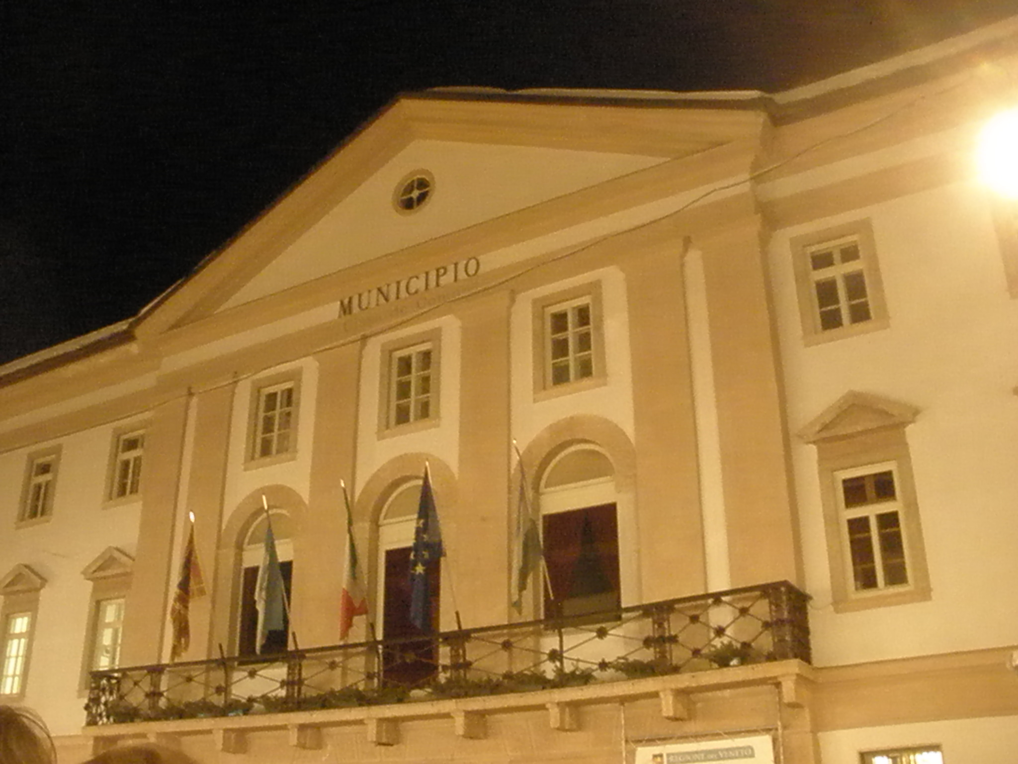 Cortina Townhall. Cortina d'Ampezzo, Italy.